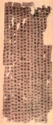 Taoist writing on silk from the Mawangdui tomb in Hunan. See: Mawangdui Silk Texts - (from tomb, 168 BC)